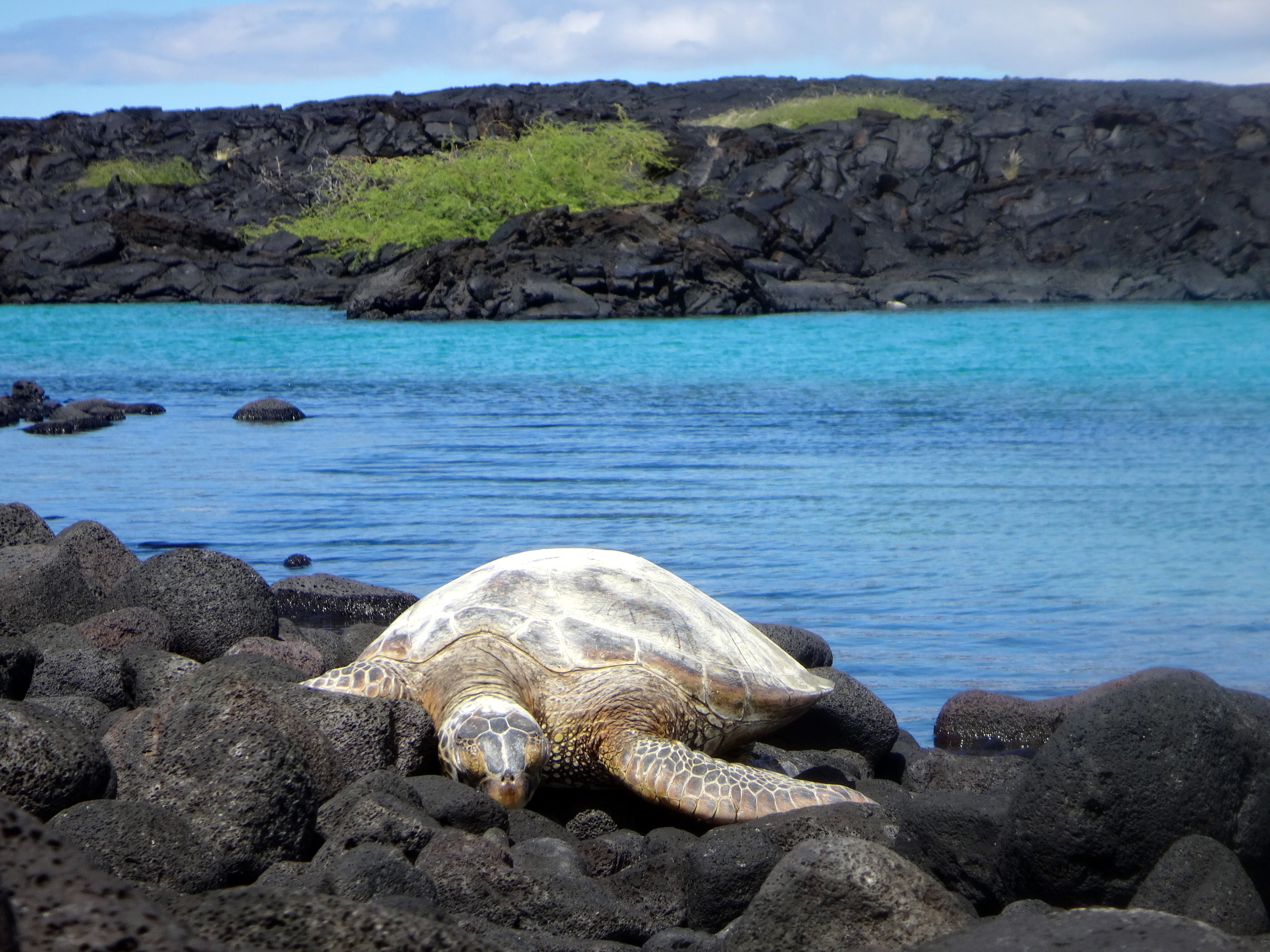 Green sea turtle basking on the rocks of Kiholo Bay